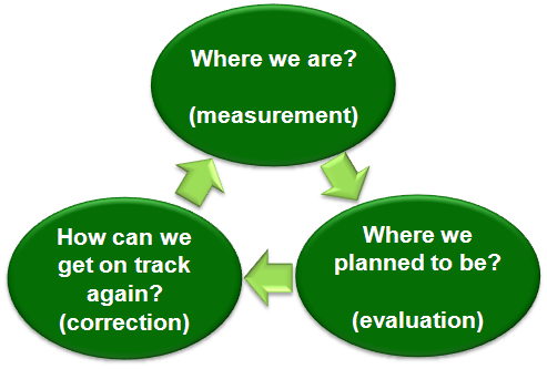 Monitoring and Control project activities